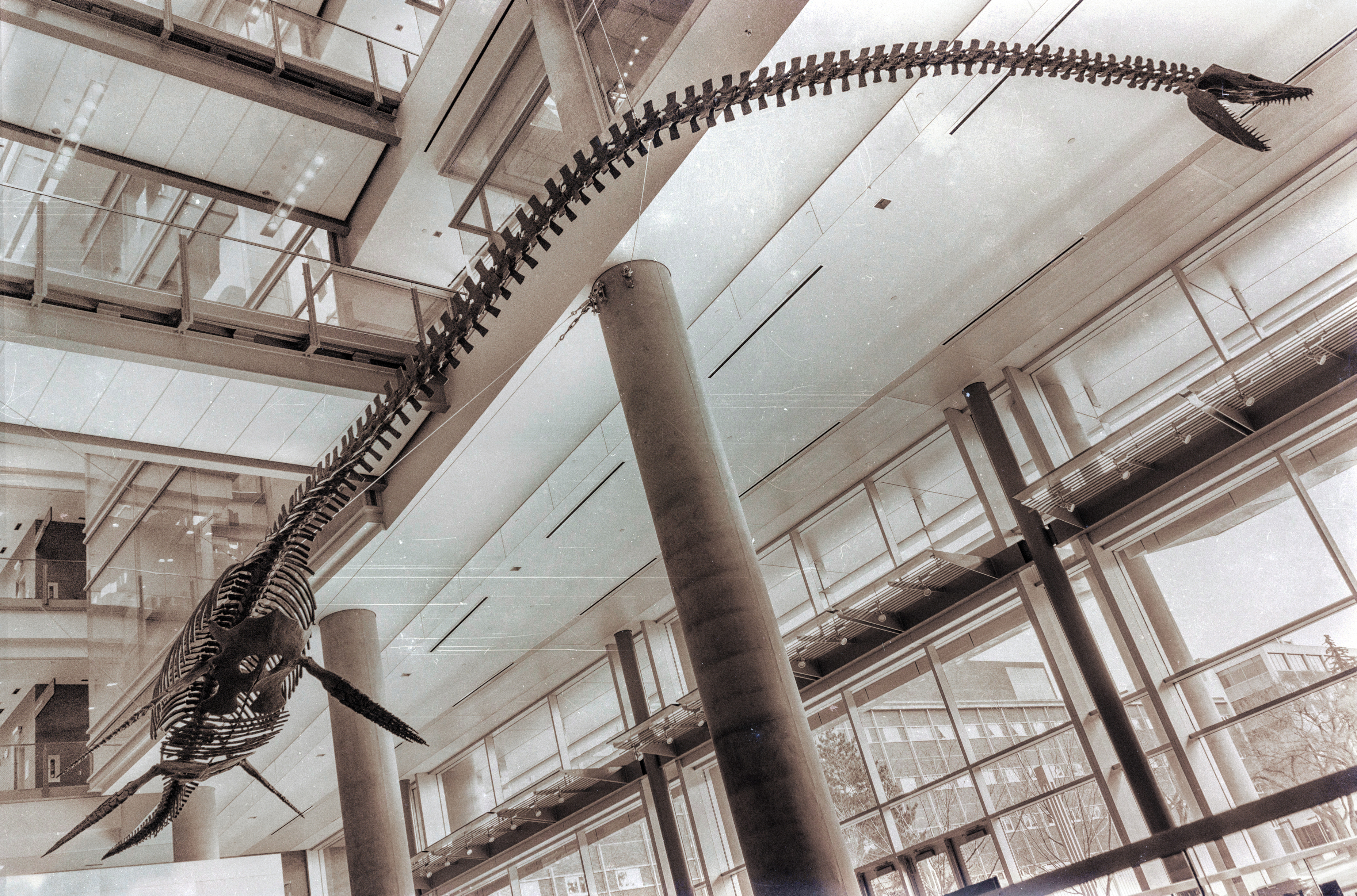 Replica of Elasmosaurus in the The Centennial Centre for Interdisciplinary Science